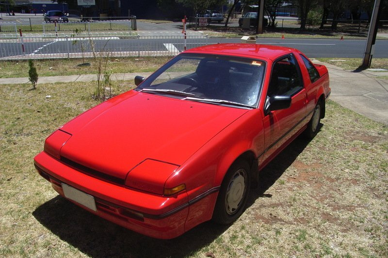 1987 Nissan EXA (N13).